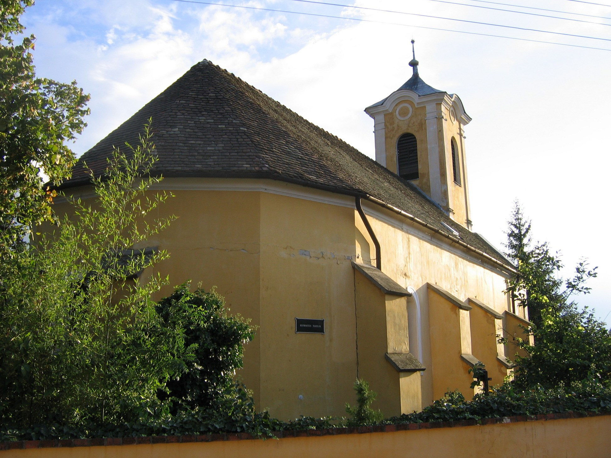 Szentendre, Hungary, Reformed Church